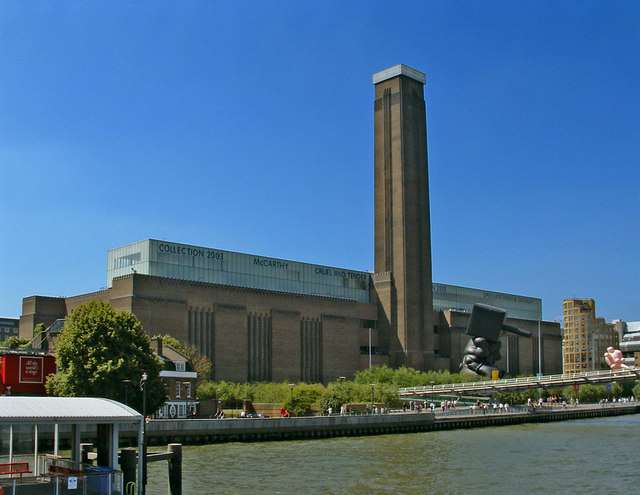 Tate Modern viewed from Thames Pleasure Boat